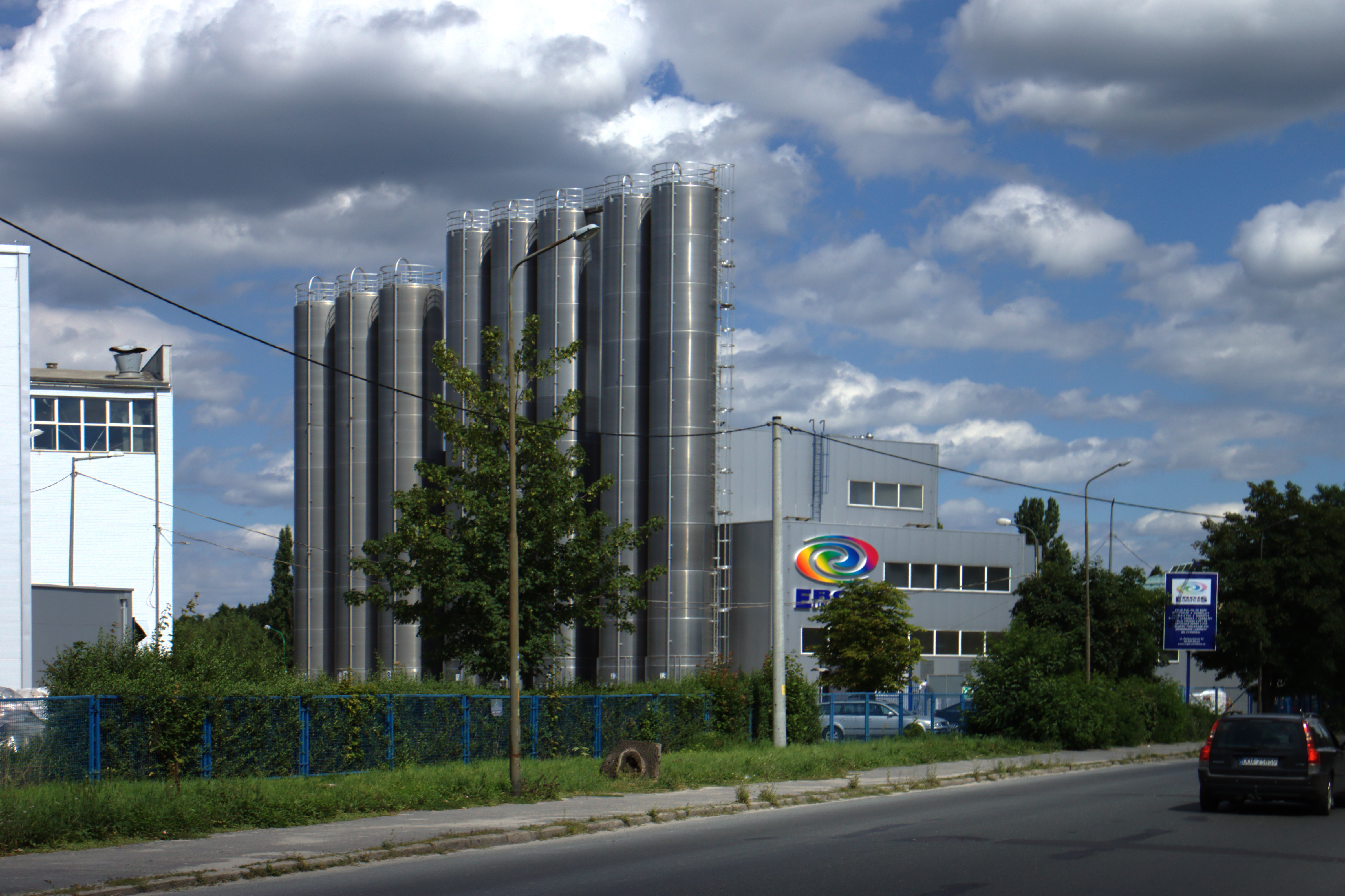 An industrial facility at Zwierzyniecka Street, Oława, Poland